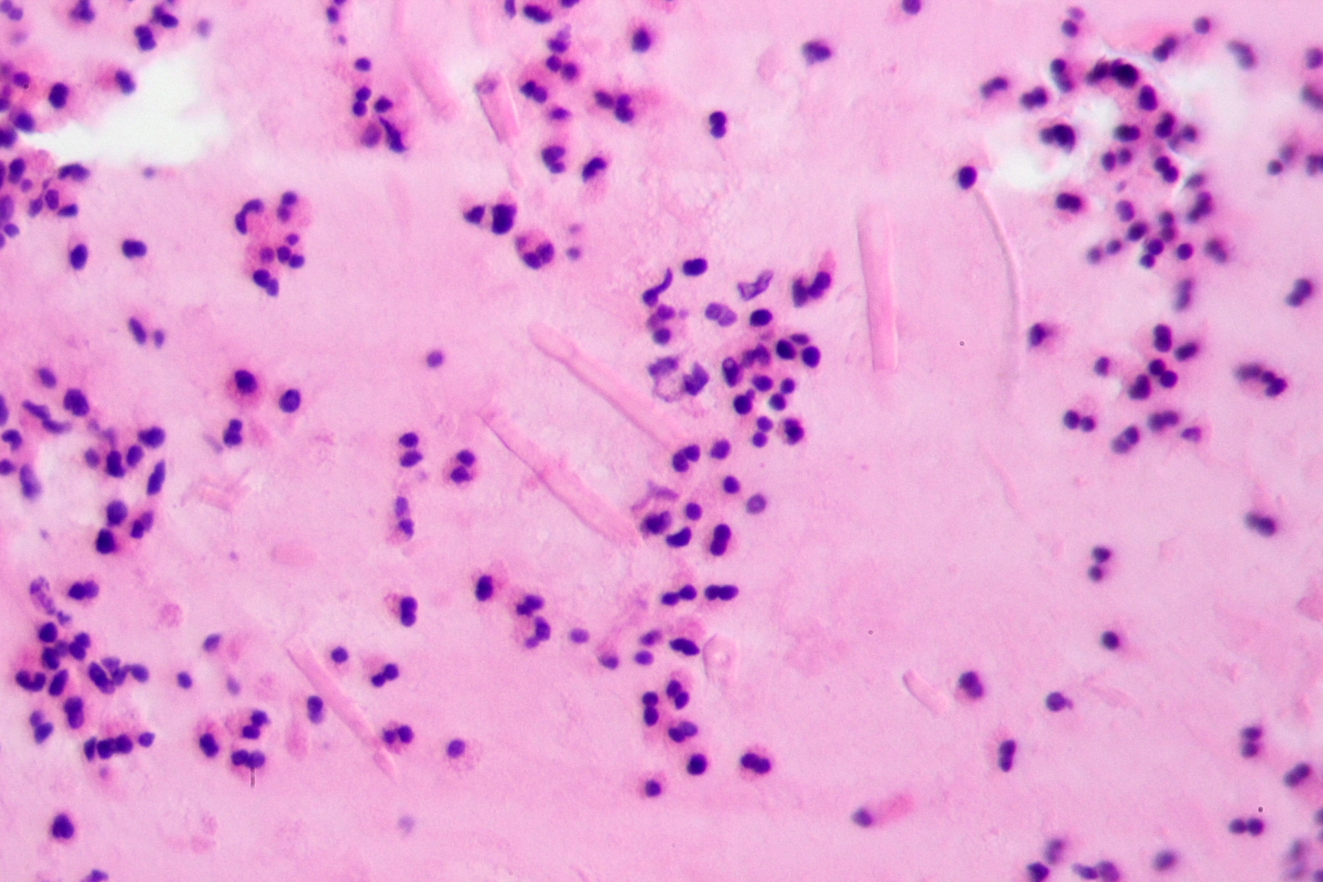 Lakes of mucus with eosinophils and Charcot-Leyden crystals in allergic sinusitis.